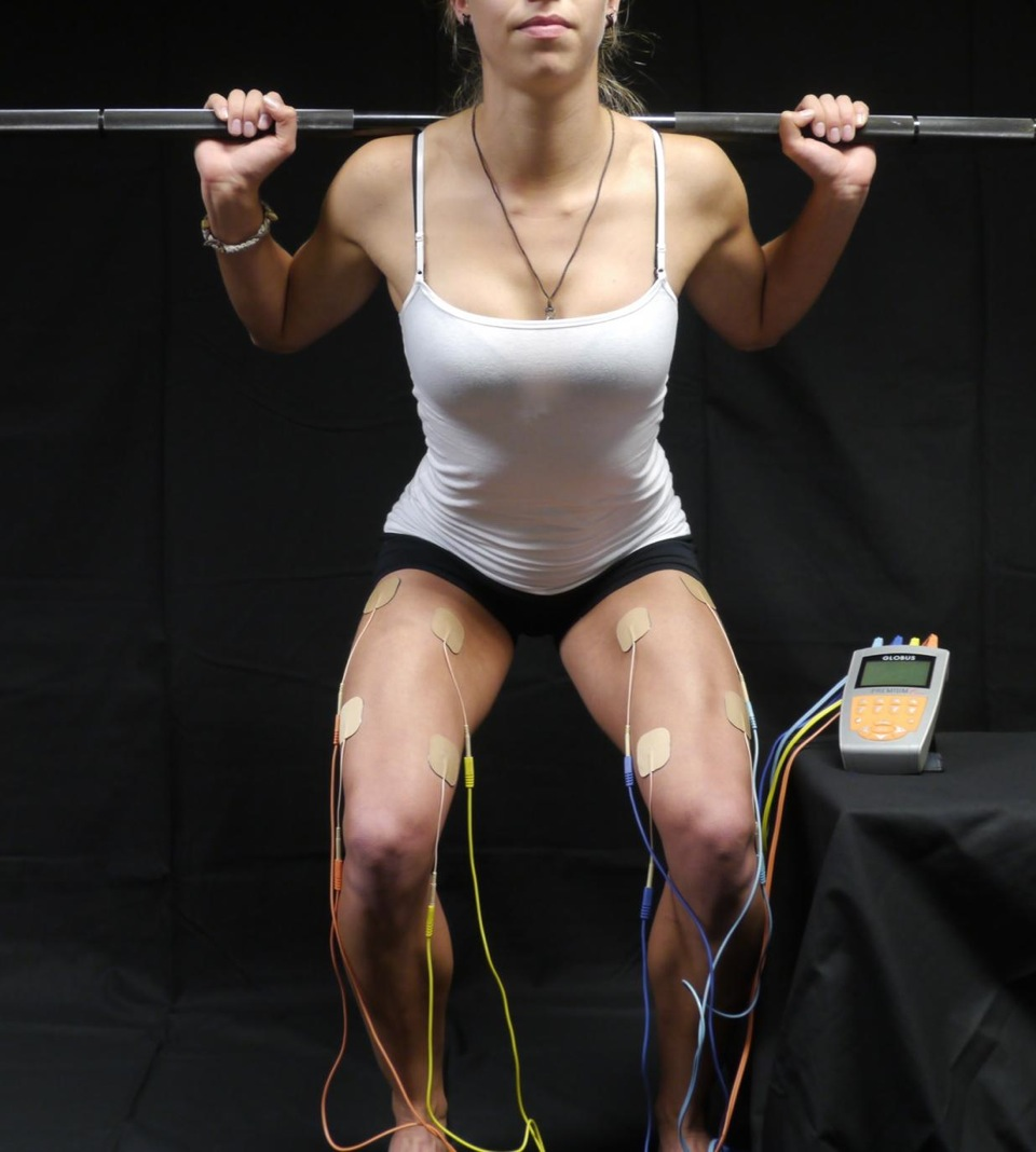 Athlete squatting with four-channel, electrical muscle stimulation machine for training, attached through self-adhesive pads to her quadriceps.